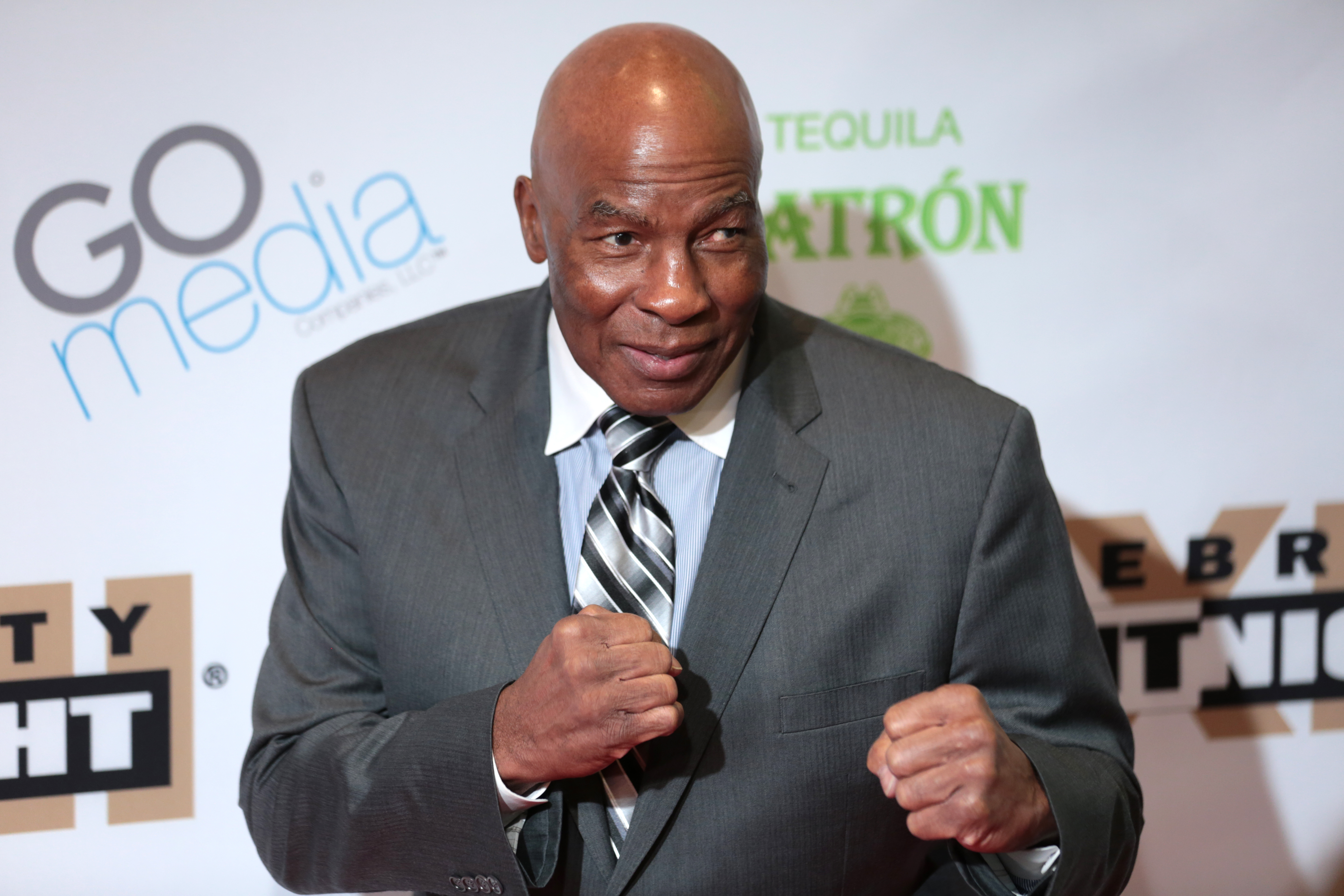 Earnie Shavers on the red carpet at Celebrity Fight Night XXIII at the JW Marriott Desert Ridge Resort & Spa in Phoenix, Arizona.